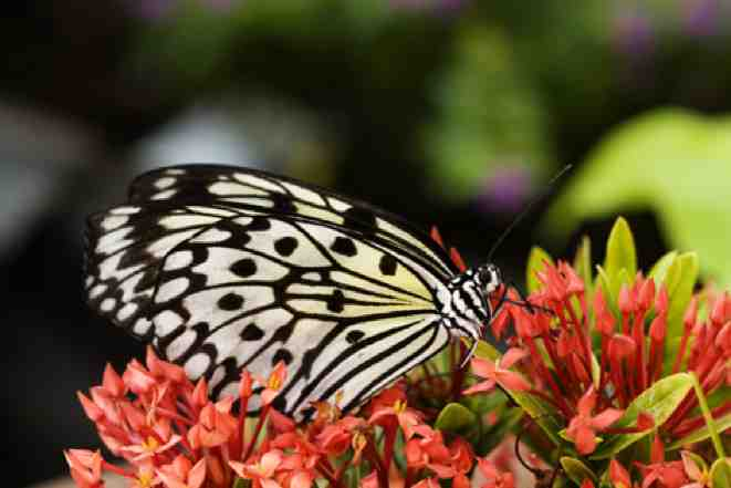 A butterfly at the New-Brunswick Botanical Garden